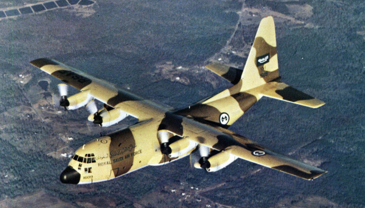 One of the camouflaged Lockheed C-130E Hercules of No 16 Squadron. which first entered the inventory in September 1965.